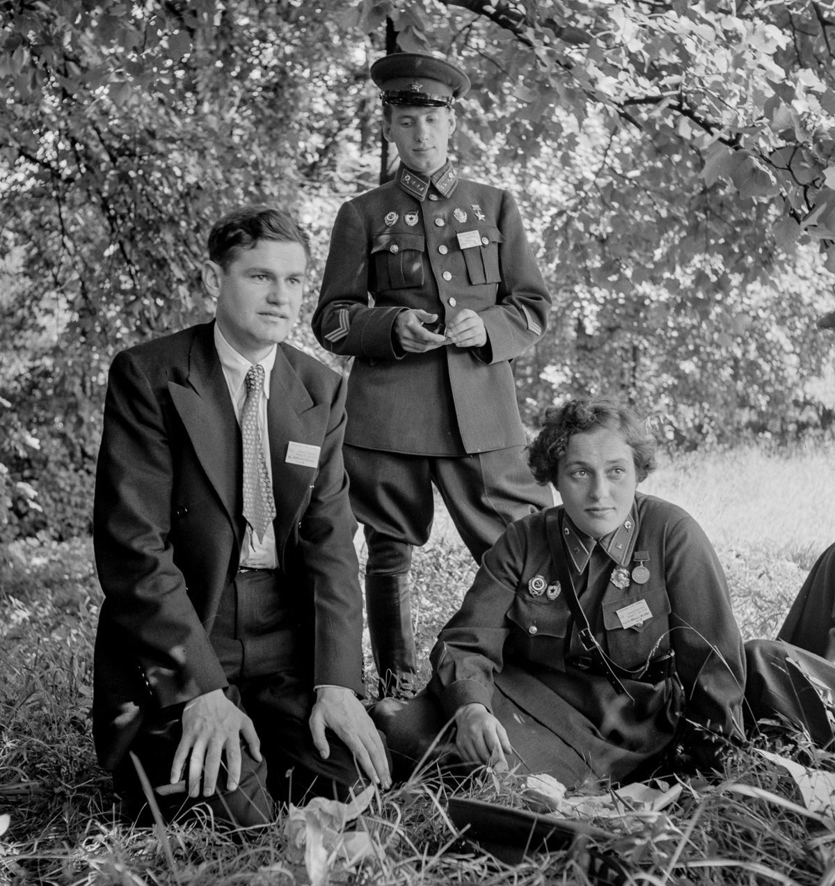 Washington, D.C. International youth assembly. Russian delegates. Lyudmila Pavlichenko, Soviet woman sniper is on the right